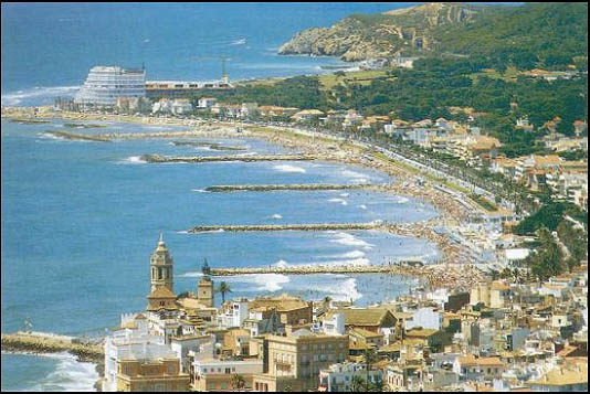 Jordi Serra, EUROSION project